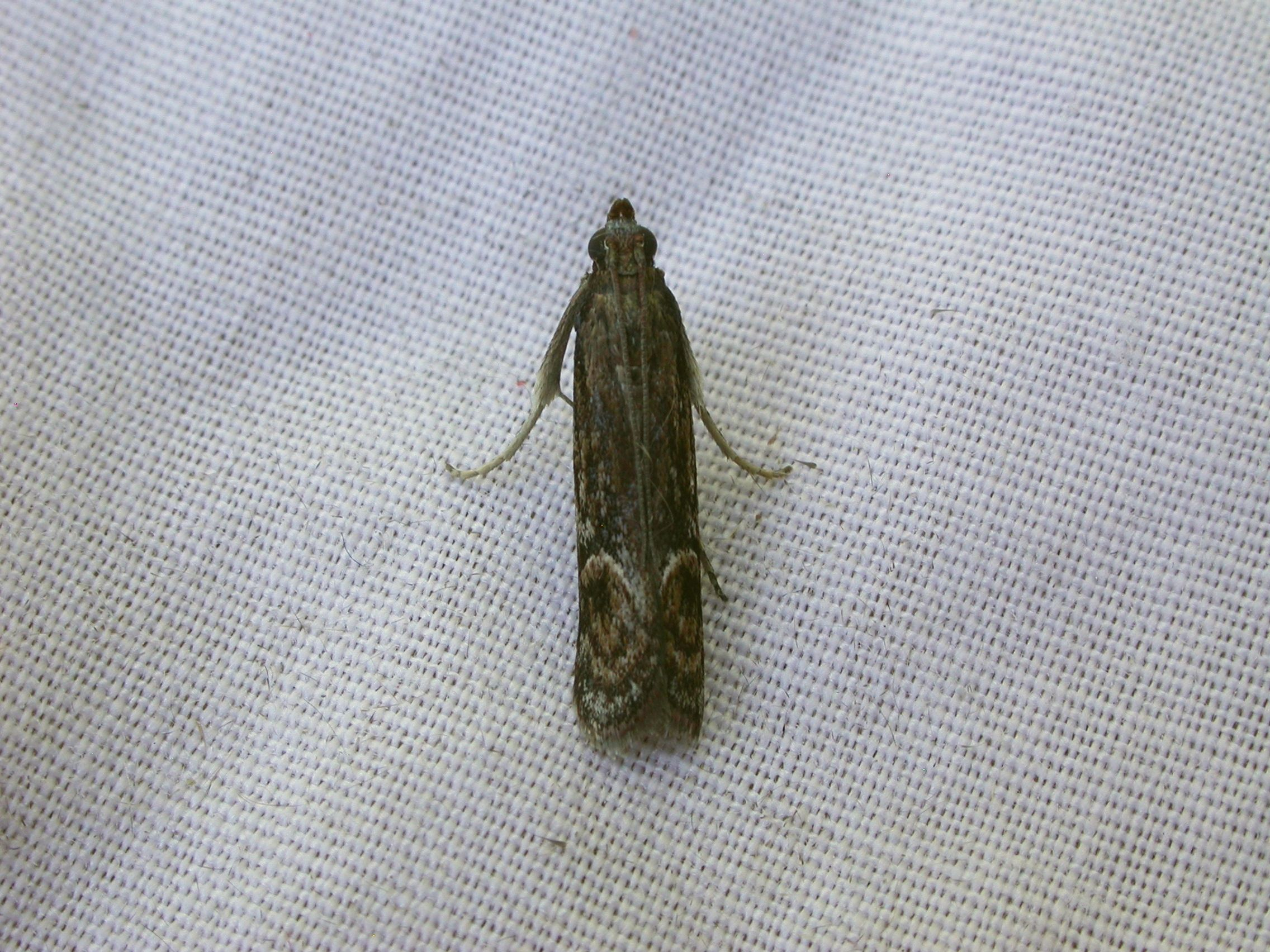 Balanomis encyclia Meyrick, 1887, to MV light, Aranda, ACT, 29/30 January 2011